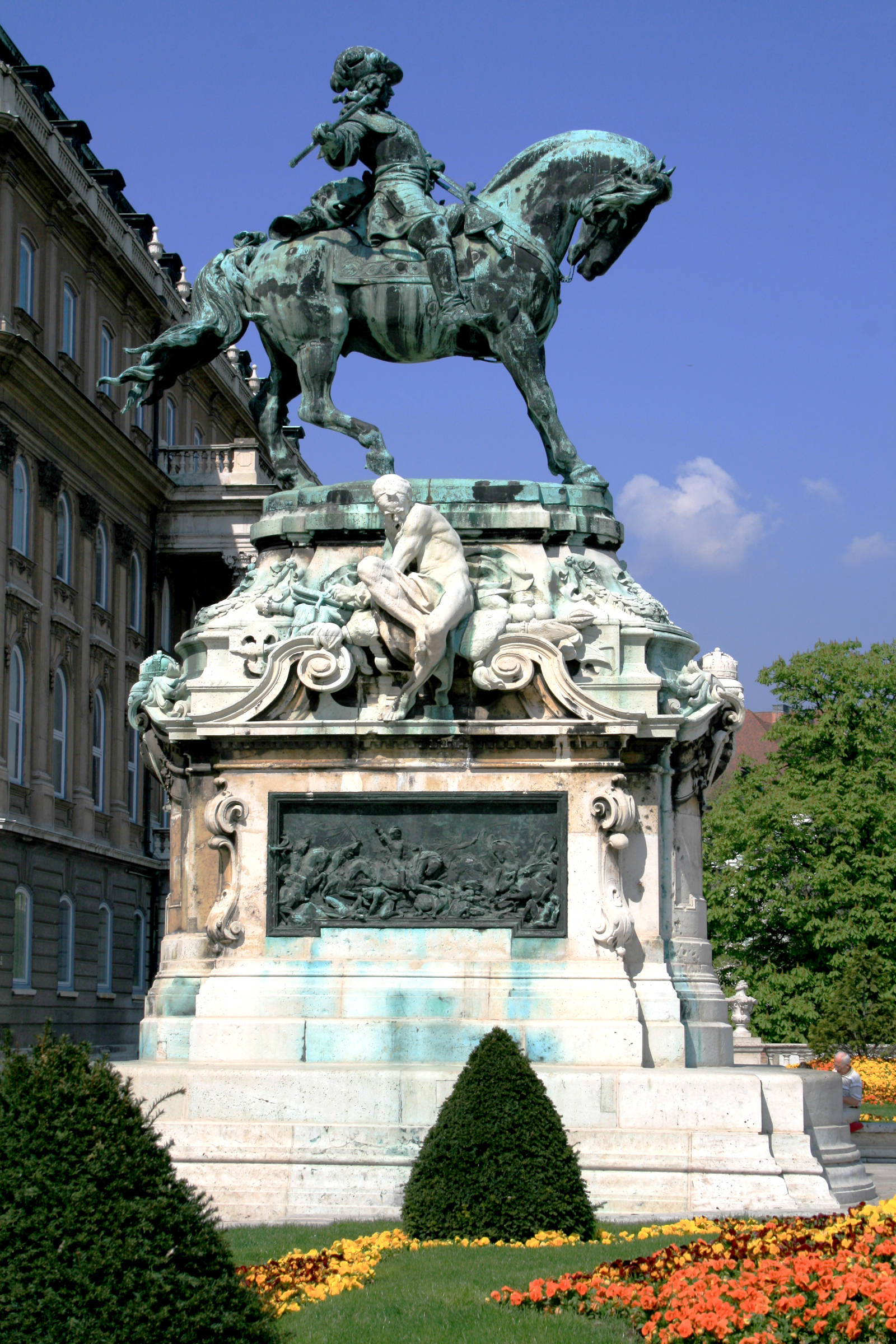 Eugen Savoyai's statue in the Castle of Buda, Budapest, Hungary